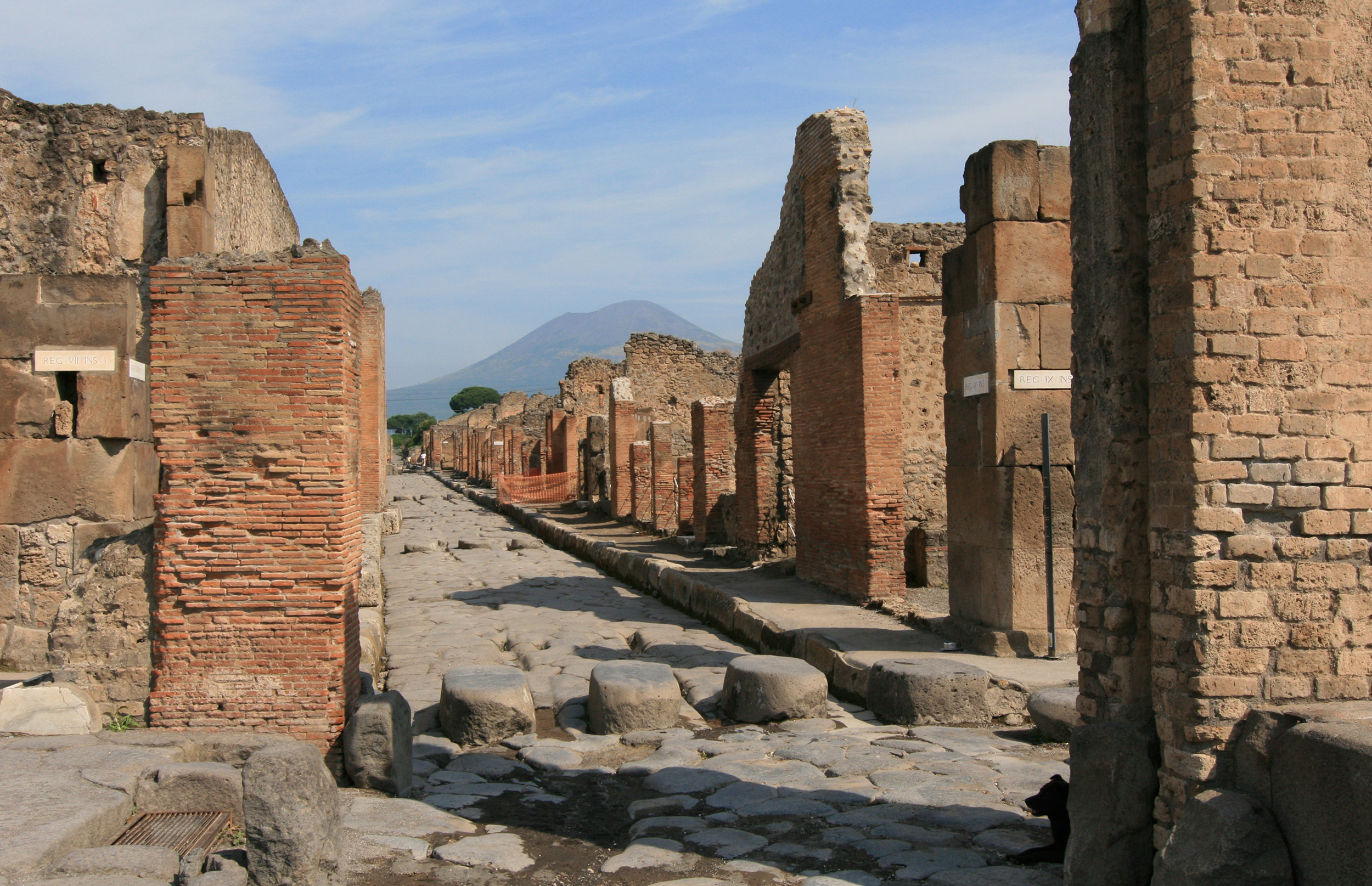 Pompeii: Strada Stabiana towards Vesuvius.